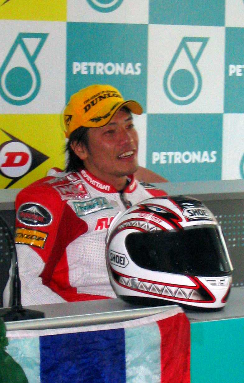 Toshiyuki Hamaguchi at the press conference at Zhuhai International Circuit after winning the 2008 FIM Asian Grand Prix championship.